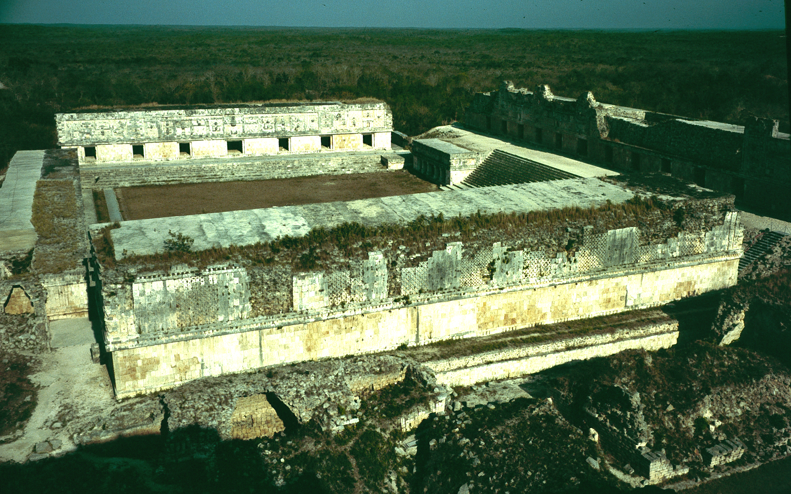 Uxmal,Yucatan, Mexico: Las Monjas